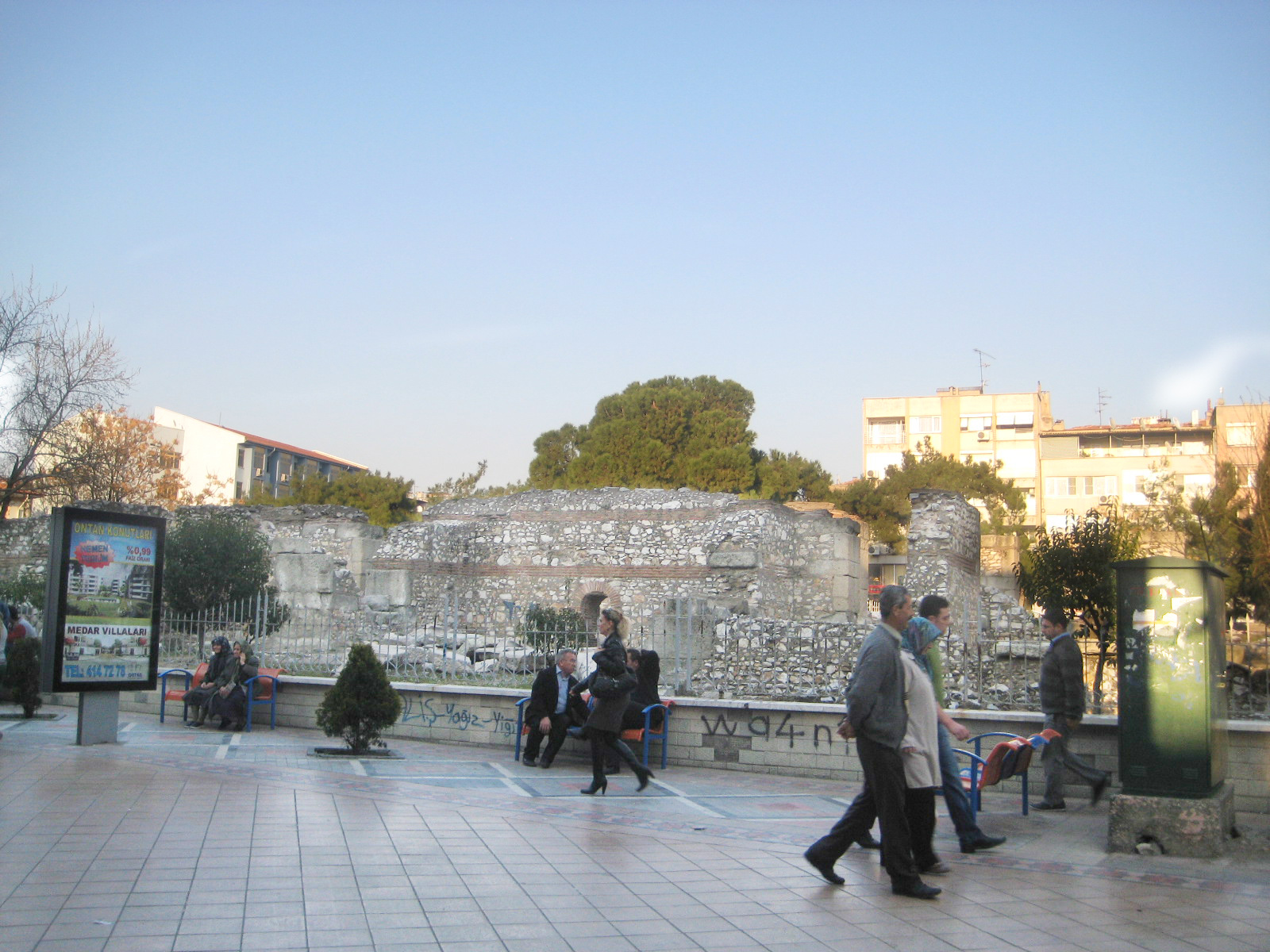 Ruins of Tempemezarı in old Thyatira, modern Akhisar. Not as nice as the one that was deleted, but it should do until someone with a better camera gets a better one.